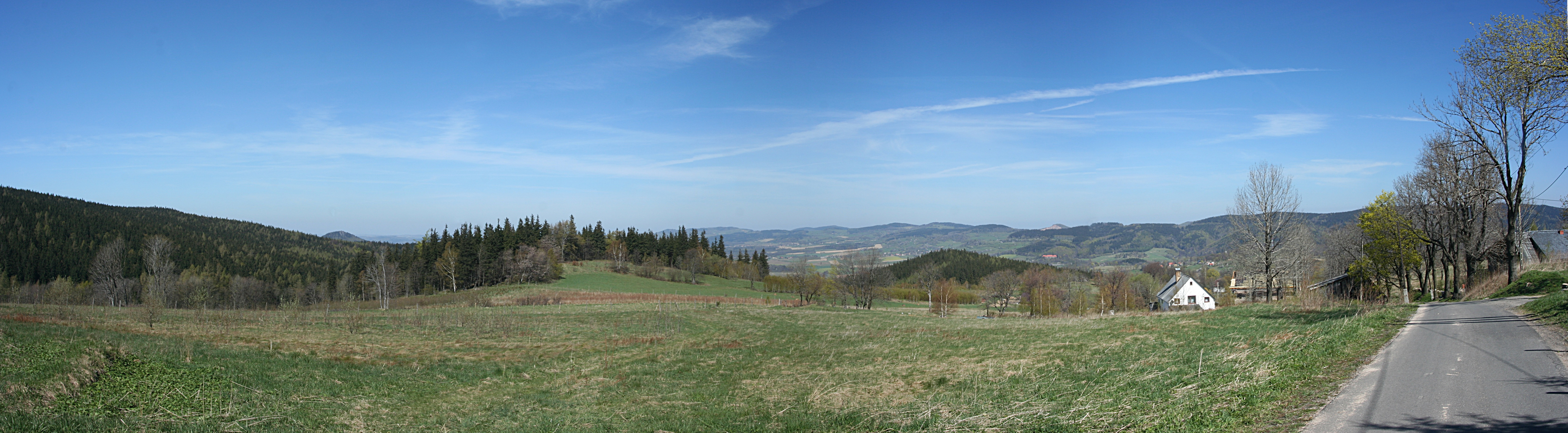 Mniszków village Lower Silesia, Poland.